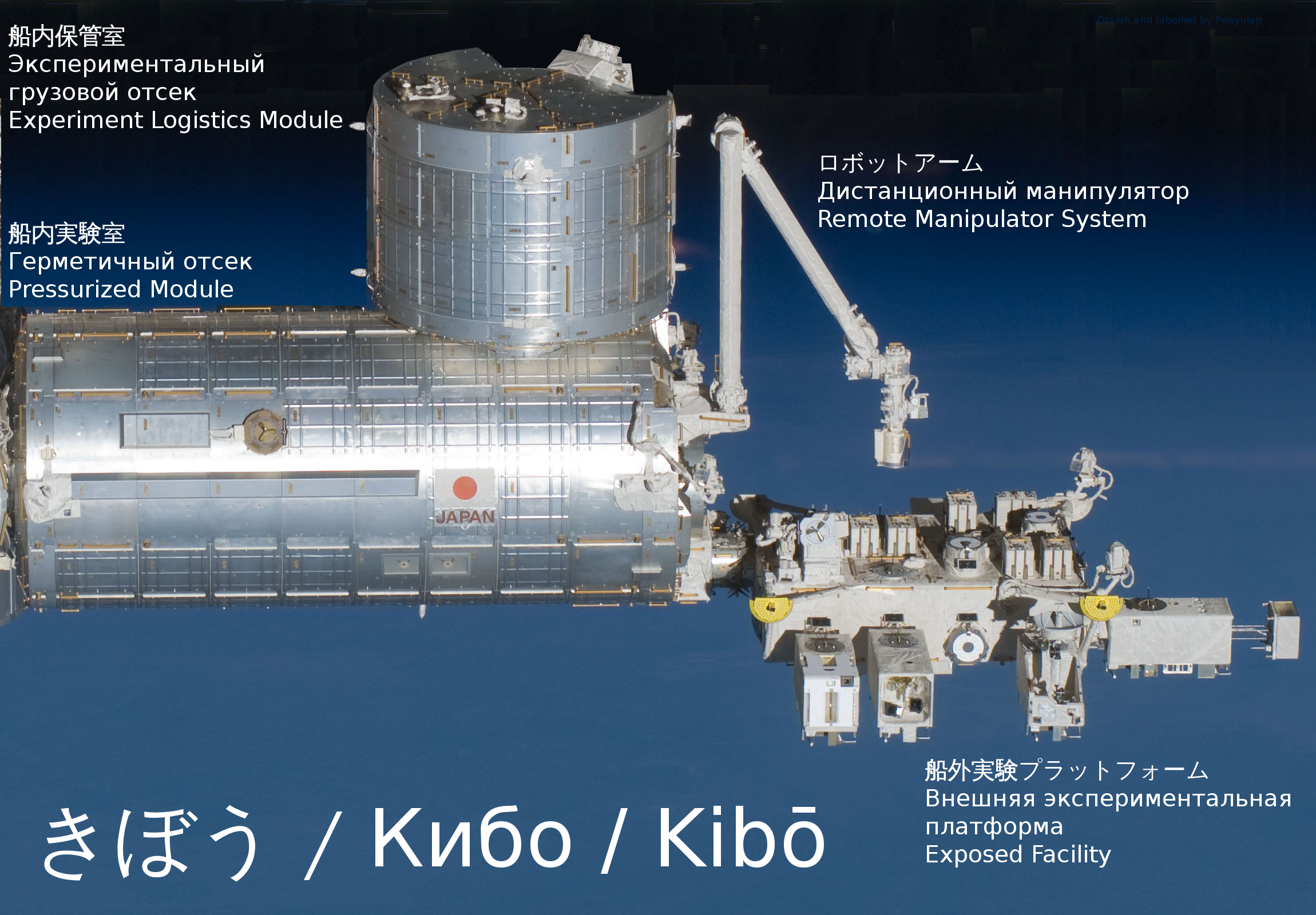 Kibō (Hope) on orbit, other modules have been photoshoped out.